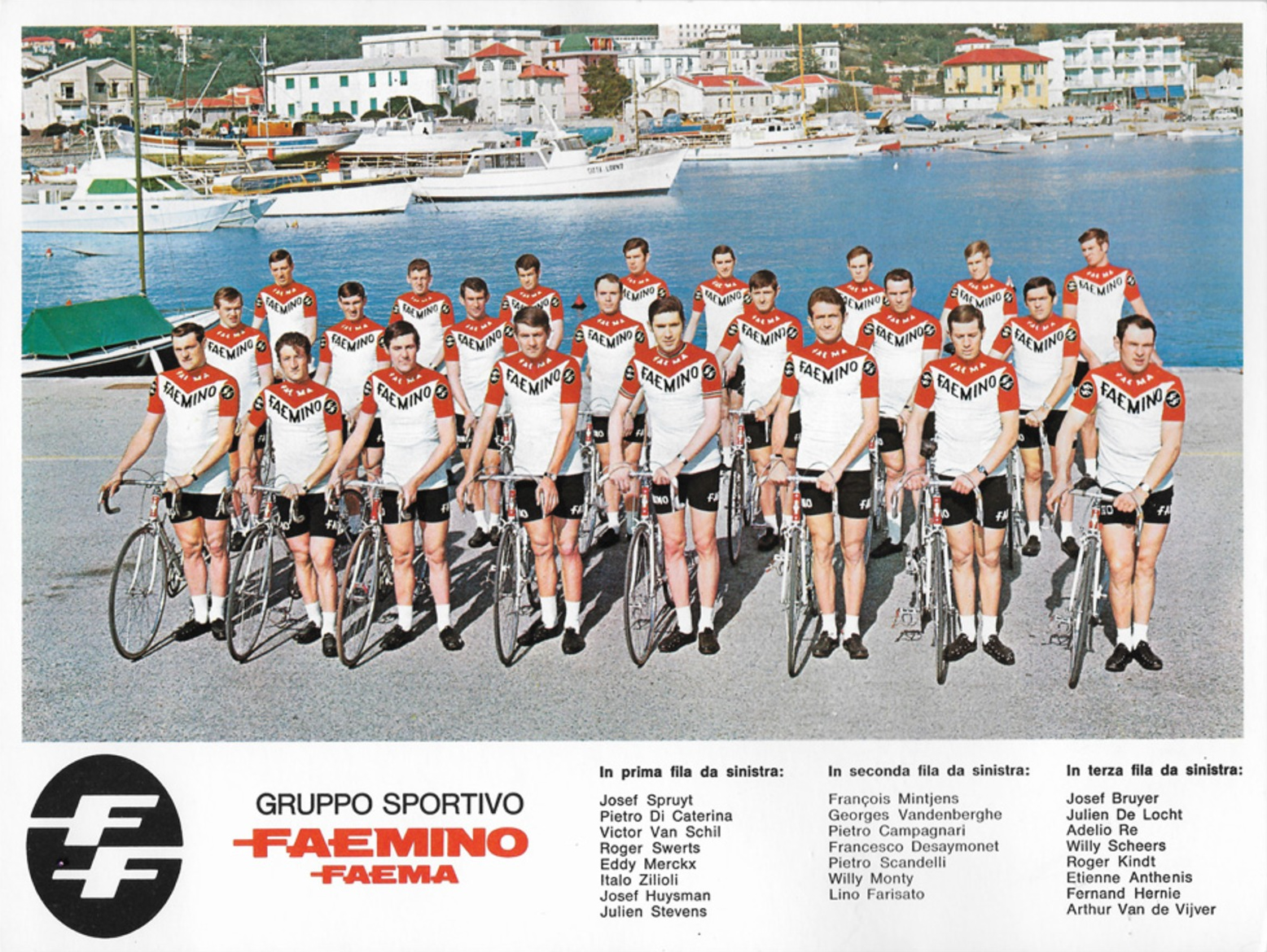 Faemino-Faema 1970 postcard